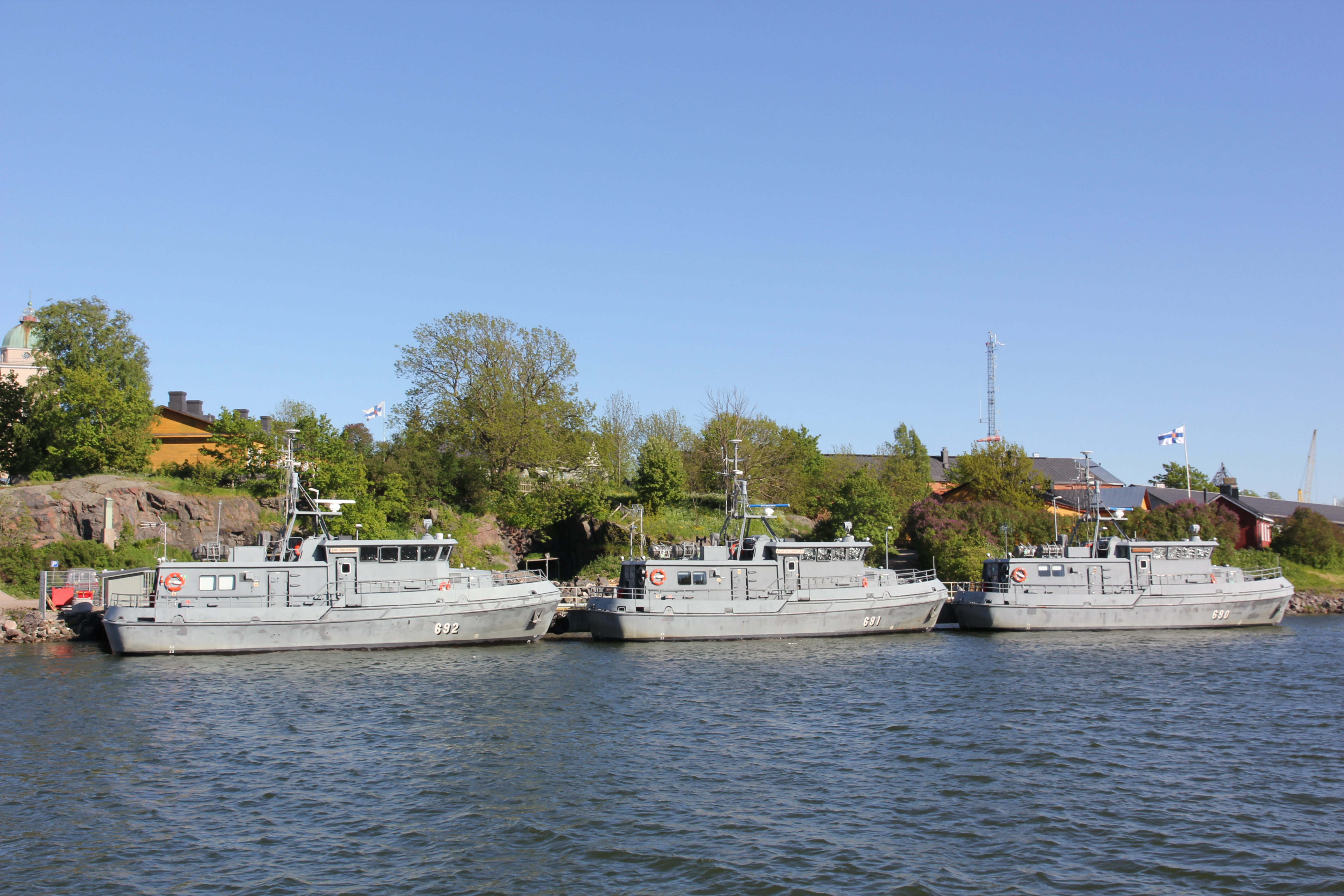 All three Fabian Wrede class training ships in Suomenlinna: Fabian Wrede (690), Wilhelm Carpelan (691) and Axel von Fersen (692).